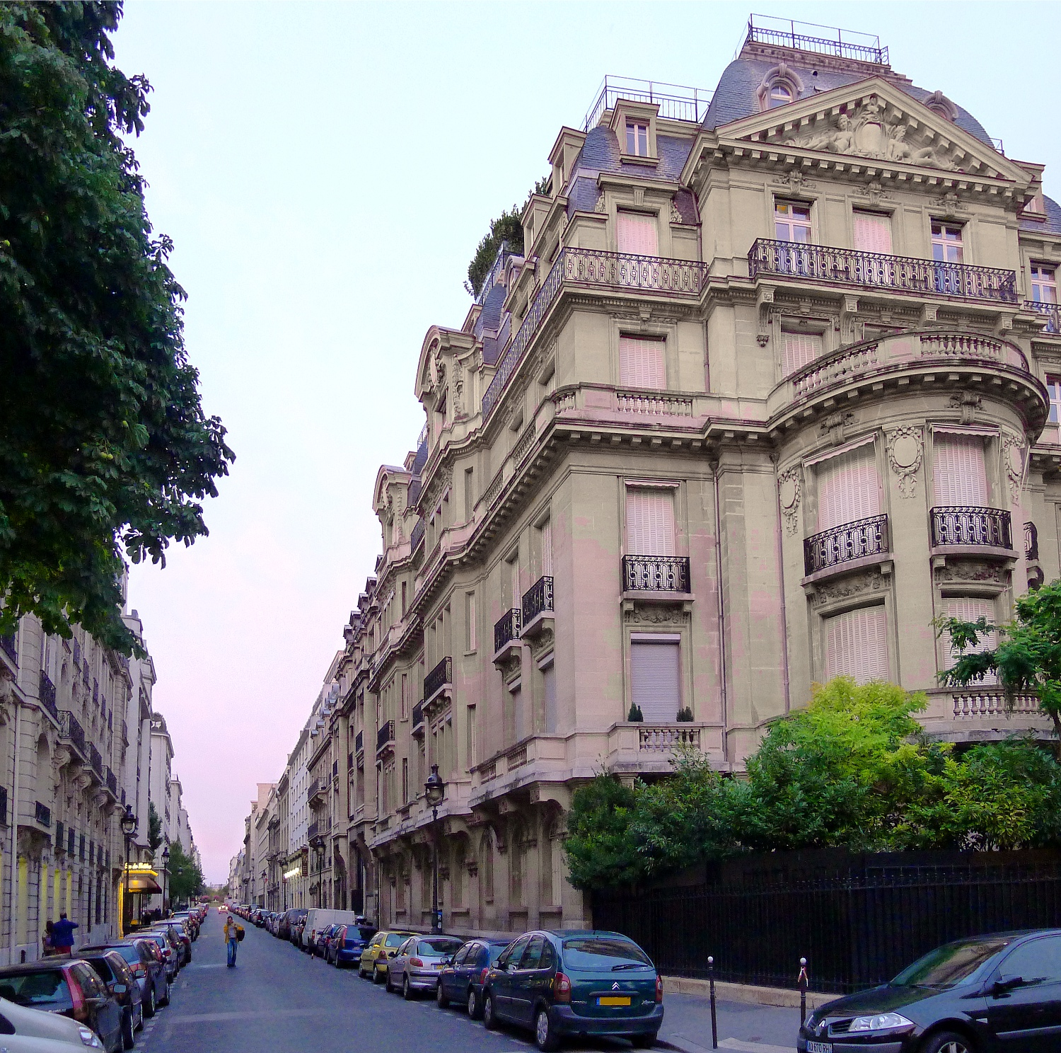 Jean-Goujon street - Paris